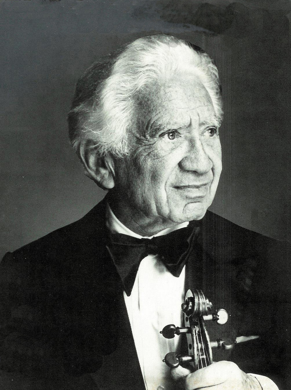 This photo is of the person who is the topic of the article "Henri Temianka".